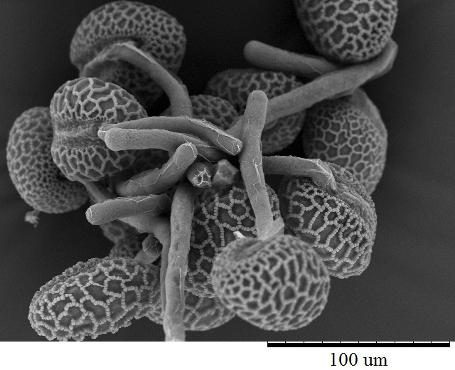 Scanning electron micrograph of lily pollen tubes. Anja Geitmann, Institut de recherche en biologie végétale, Université de Montréal.